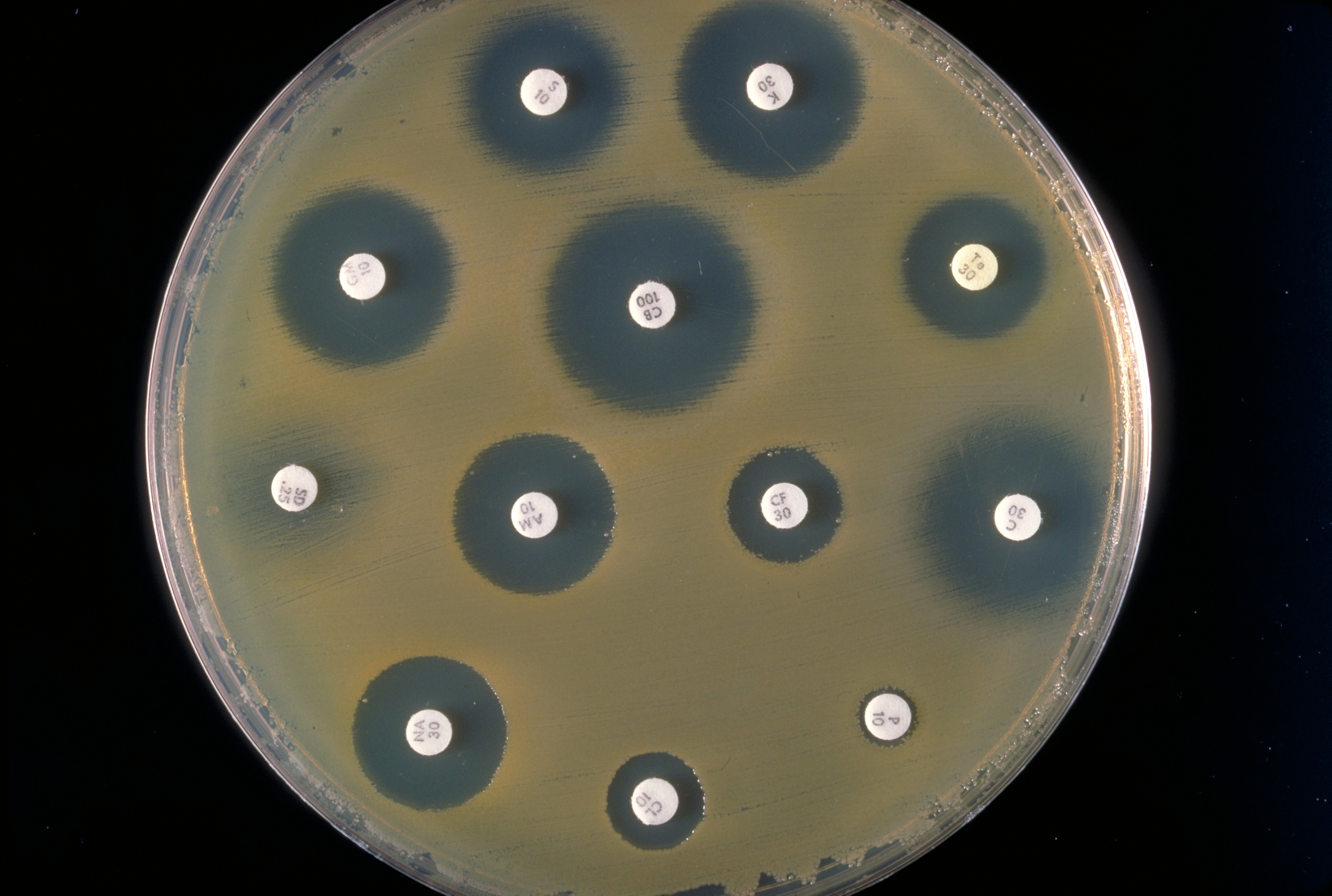 A plate culture of Enterobacter sakazakii performed during an antibiogram study. The clear areas around each antibiotic disc indicate the regions on inhibition in the otherwise uniform bacterial lawn.